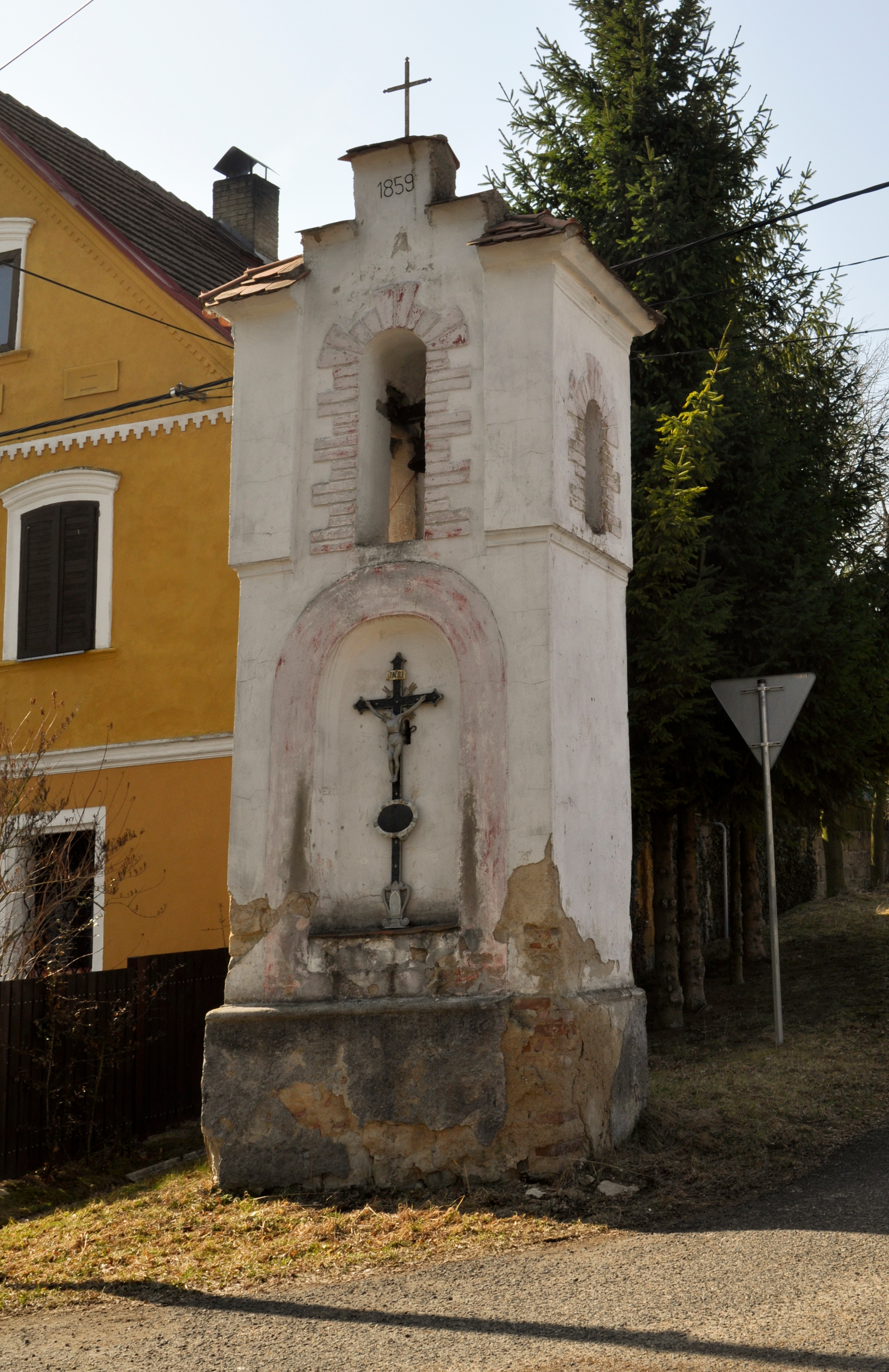 Pillar chapel at the village green, Újezd, Ústí nad Labem Region